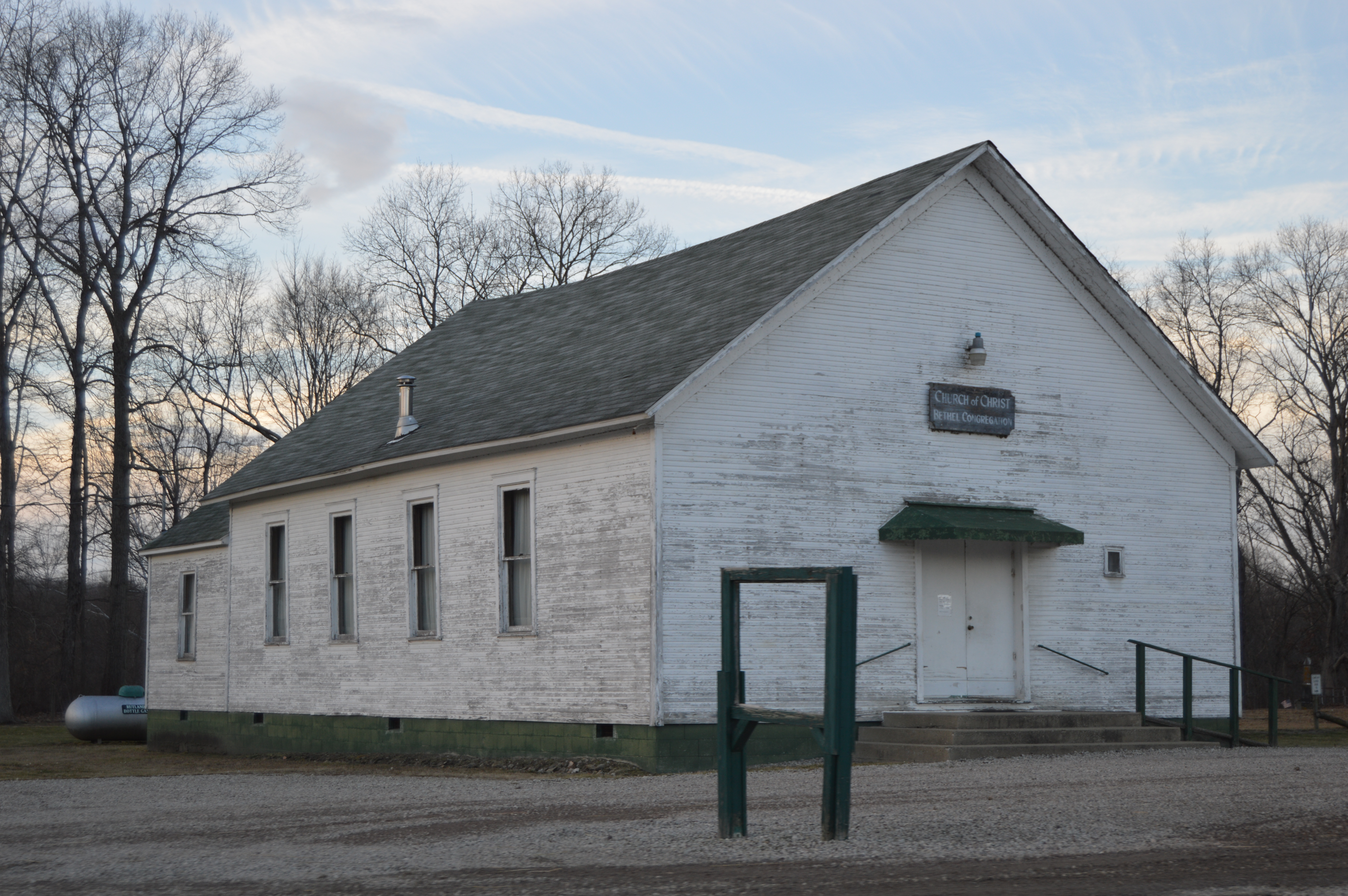 Front and southern side of Bethel Church of Christ, located on the western side of State Route 93 between Dundas and Hamden in Clinton Township, Vinton County, Ohio, United States.